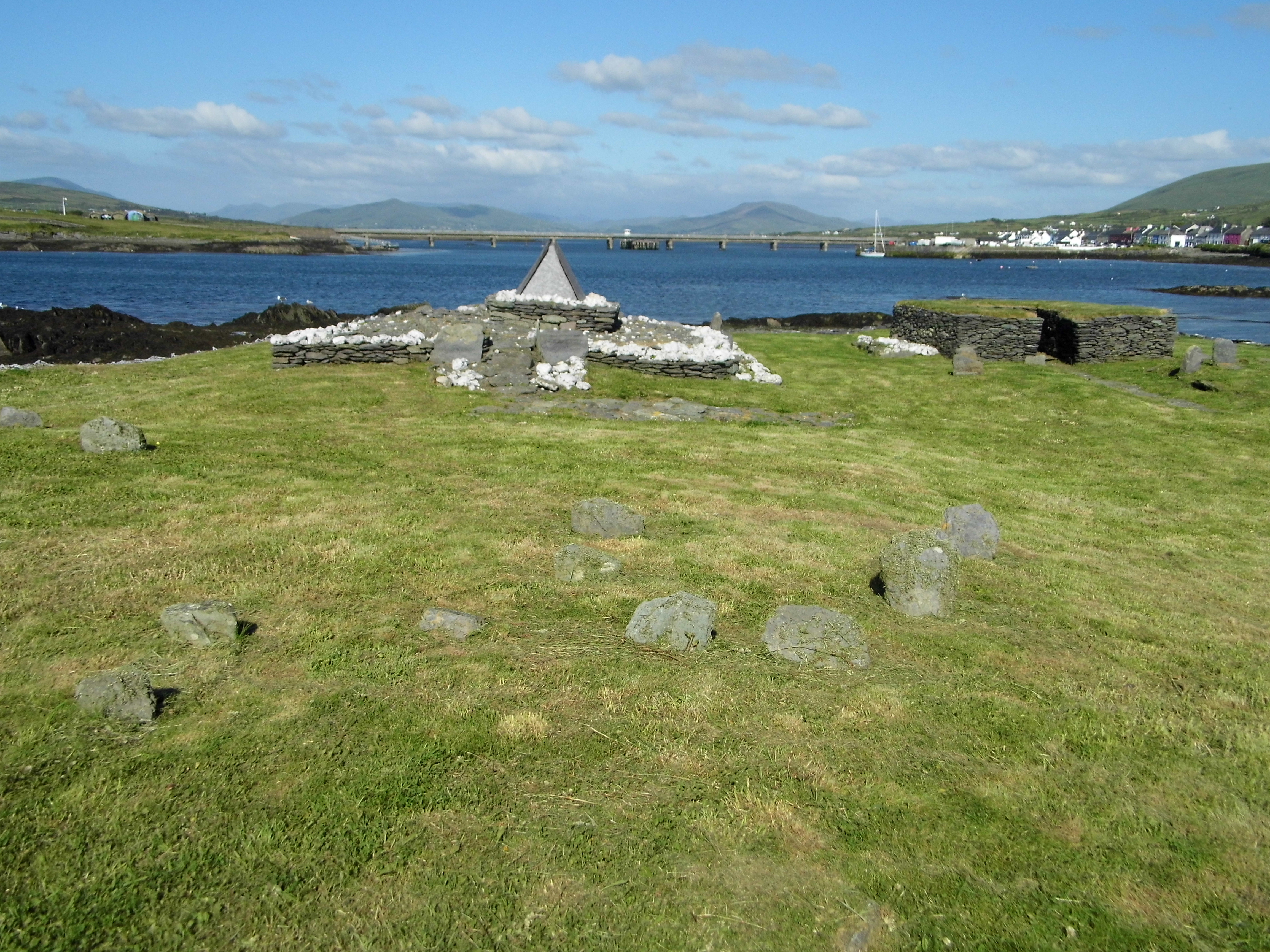 County Kerry, Illaunloughan Early Medieval Ecclesiastical Site. Wikidata has entry Q30247133 with data related to this item.